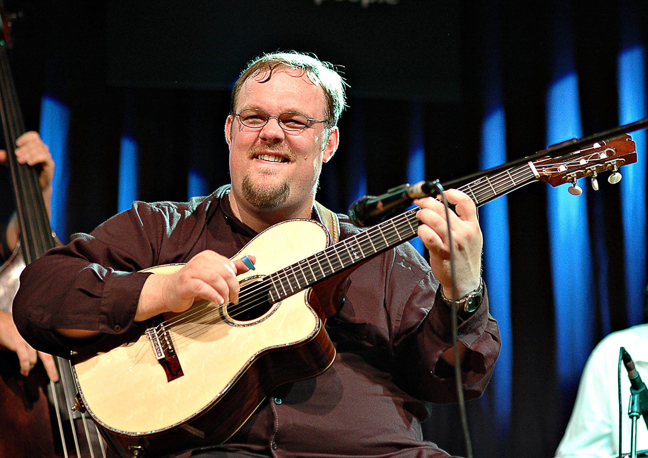 Guitarist Richard Smith playing his Kirk Sand signature model guitar at the 3rd annual Tommy Emmanuel Guitar Festival in Rietberg/Germany.